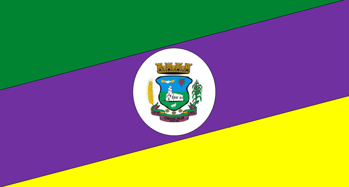 Flag of Montenegro, Rio Grande do Sul, Brasil.